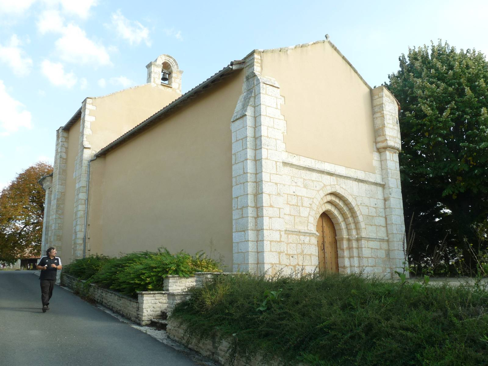 church of Angeduc, Charente, SW France